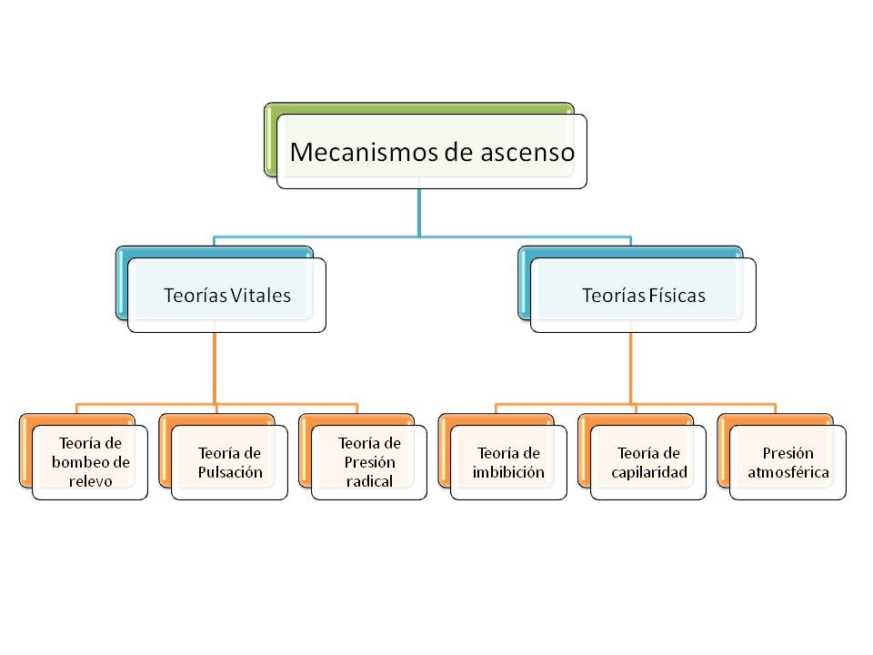 Sap ascent Theories (Sinha, 2004)